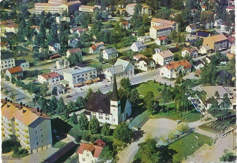 Riihimäki, Finland from air